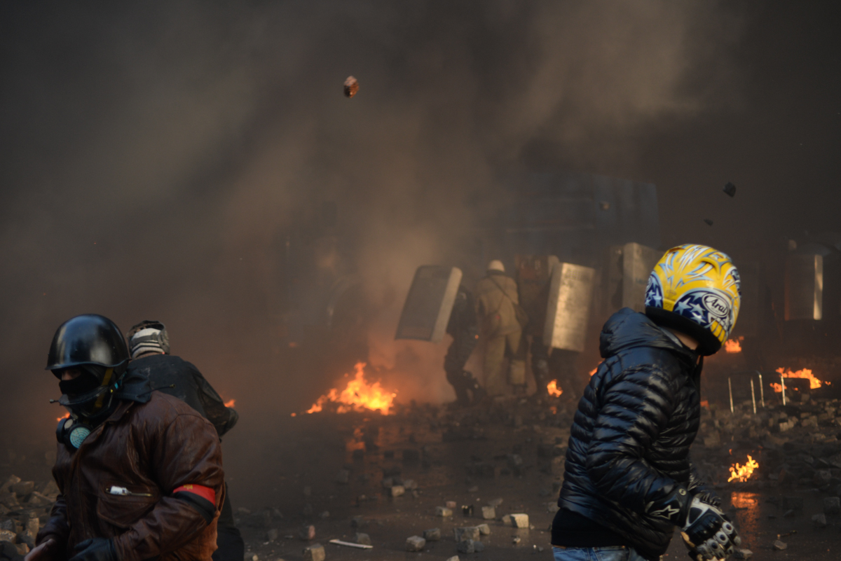 Protesters throwing brick pavement in the direstion of internal troops line covered under smoke of burning tires. Clashes in Ukraine, Kyiv. Events of February 18, 2014-2